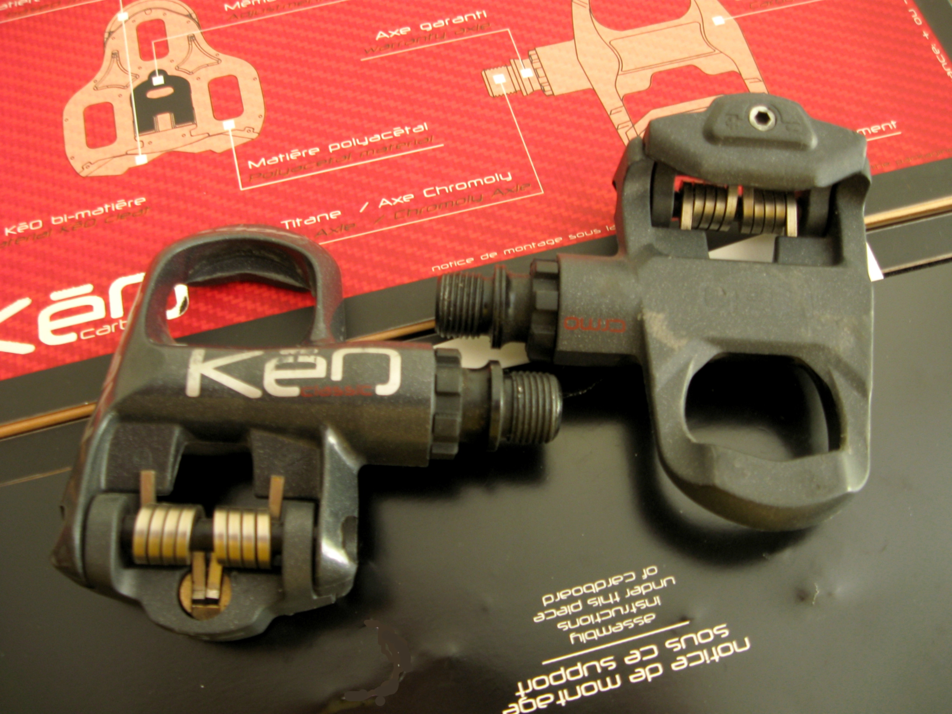 Look Keo Classic, pedals for road bicycle. Weight of one pedal 140 g - without insert cleats.